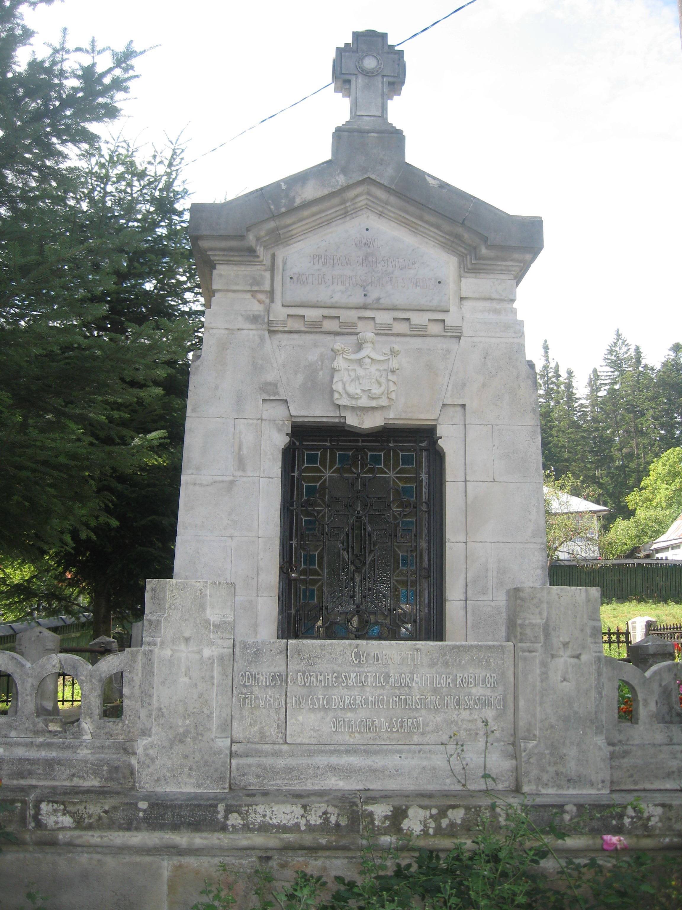 Biserica de lemn din Agapia